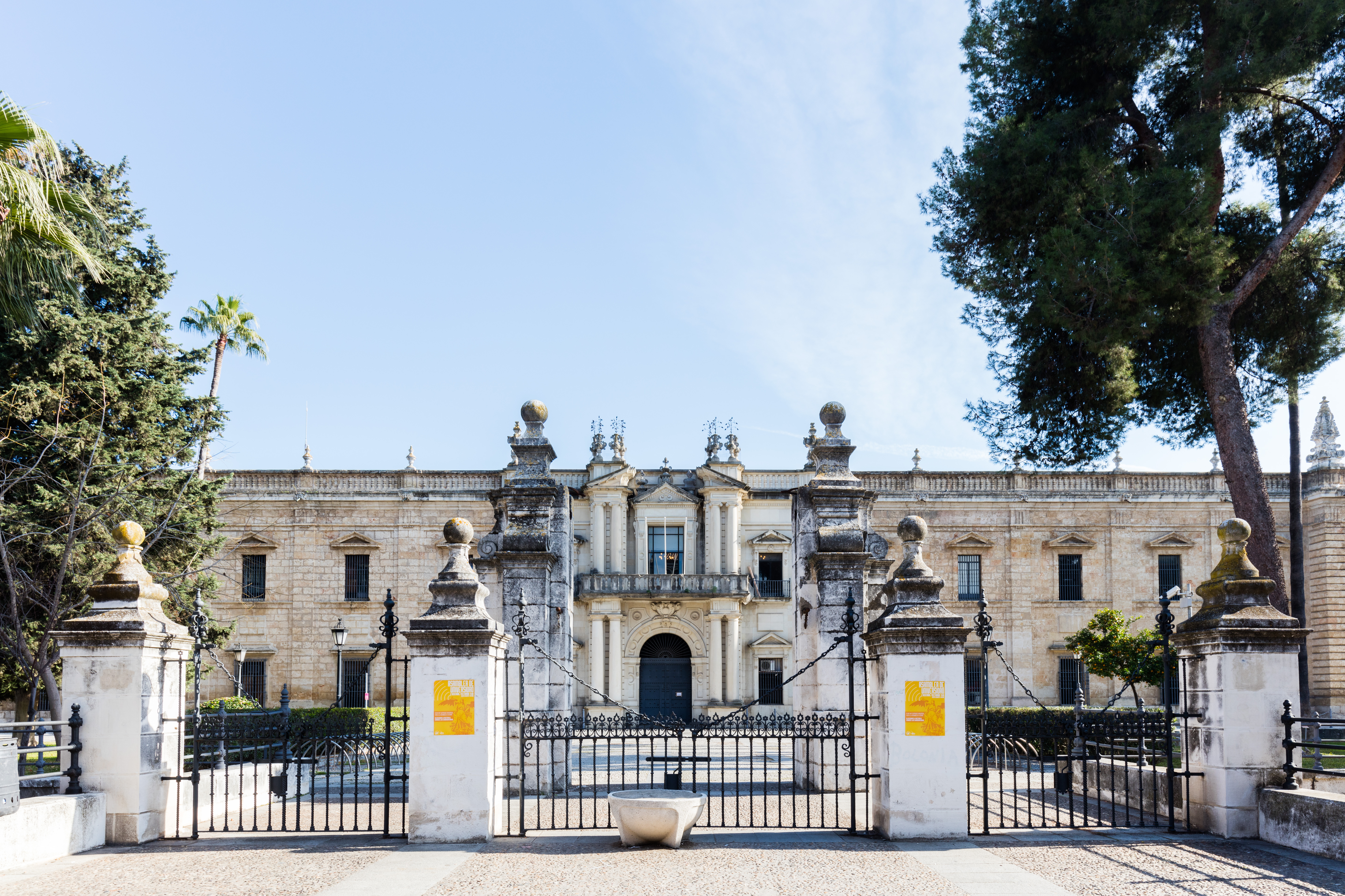 Faculty of Geography and History, University of Seville, Seville, Spain